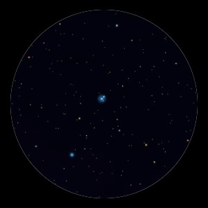 Delta Centauri